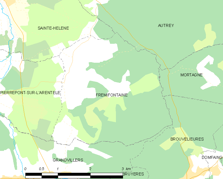 Map of French municipality Fremifontaine